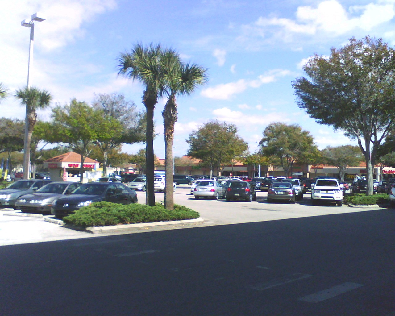 Taken by W.Slupecki